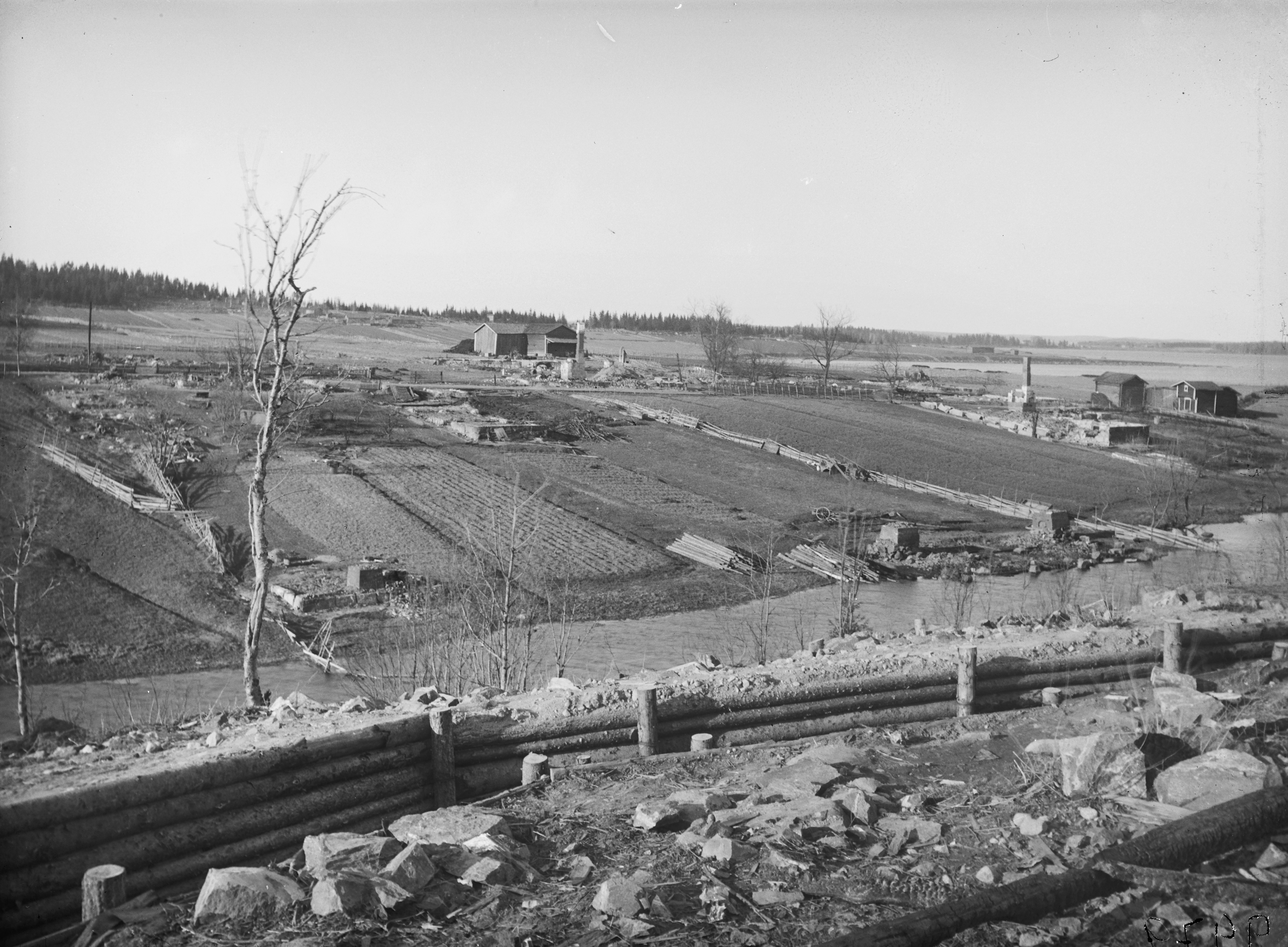 Ruins and trenches of Narva village, Vesilahti.